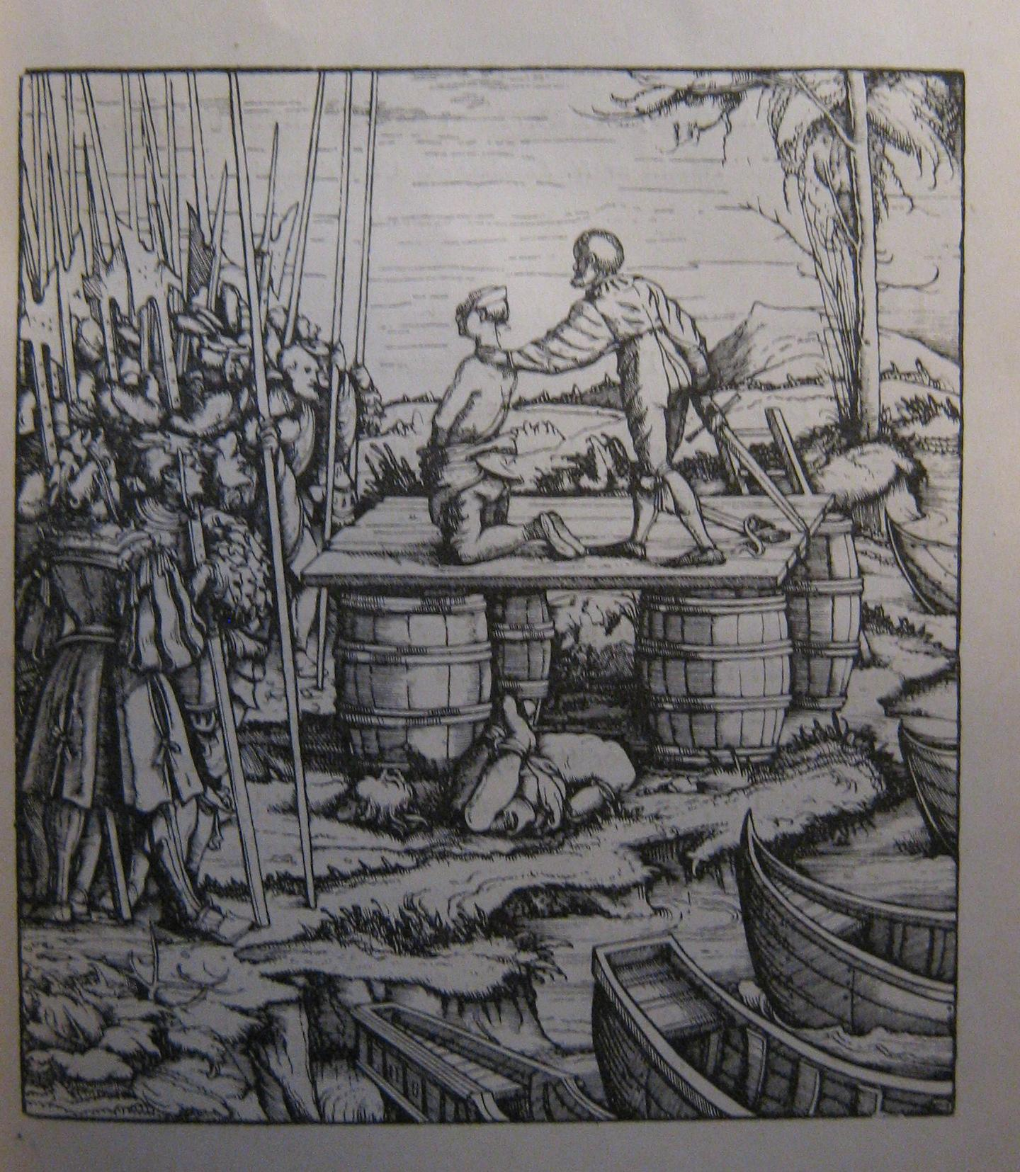 Emperor Maximilian punishes flemish rebels, from Weisskunig